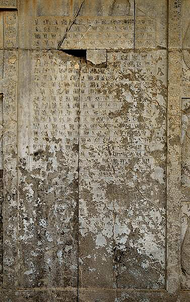 Old Persian inscription at Apadana stairs of Persepolis